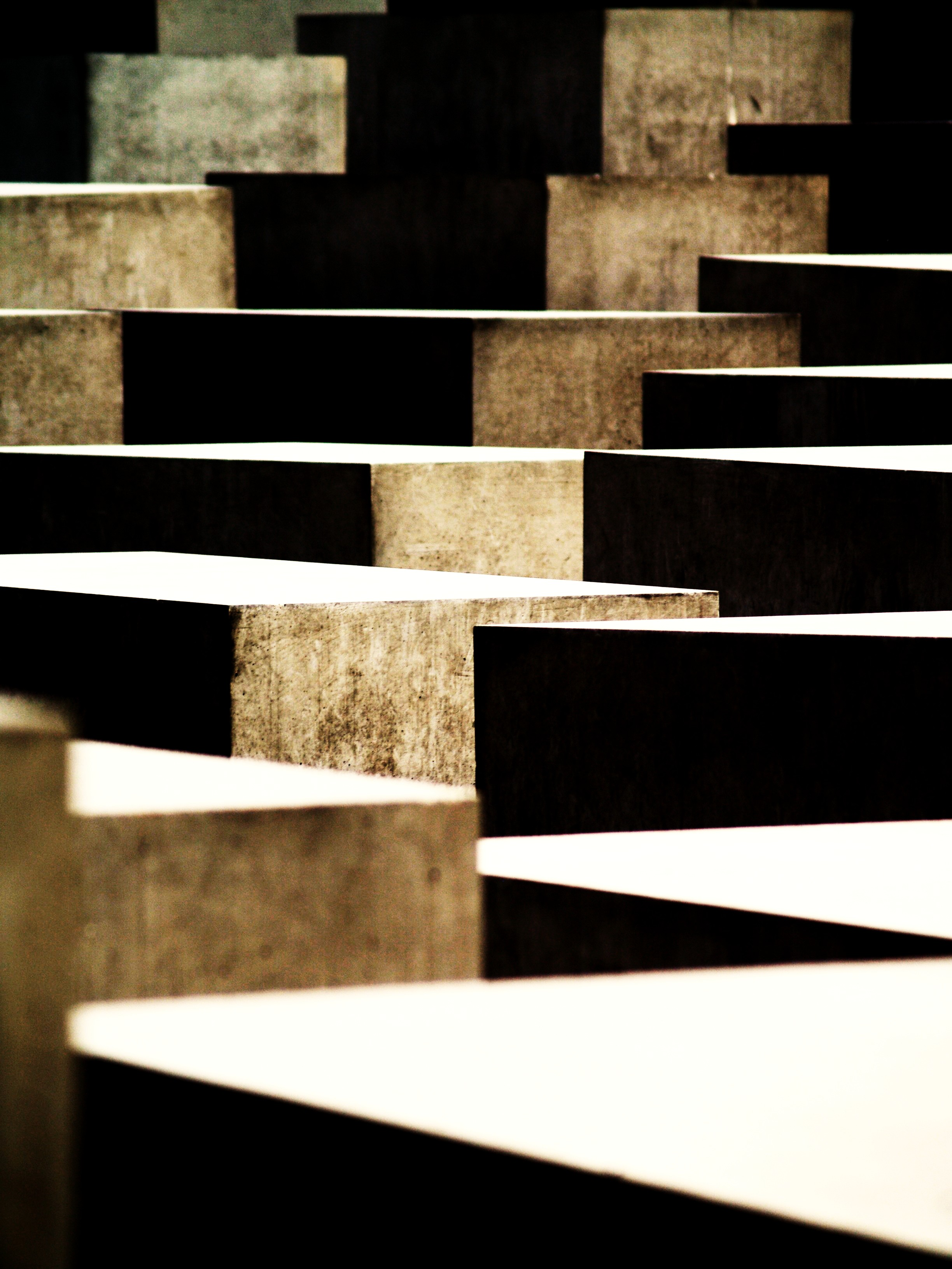 Memorial to the Murdered Jews of Europe in Berlin, Germany